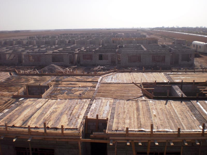 Azad City in Kirkuk One Azad Al-Shakarchi projects and includes 4,600 housing units